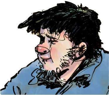 Self-portrait of Ahmad Nady